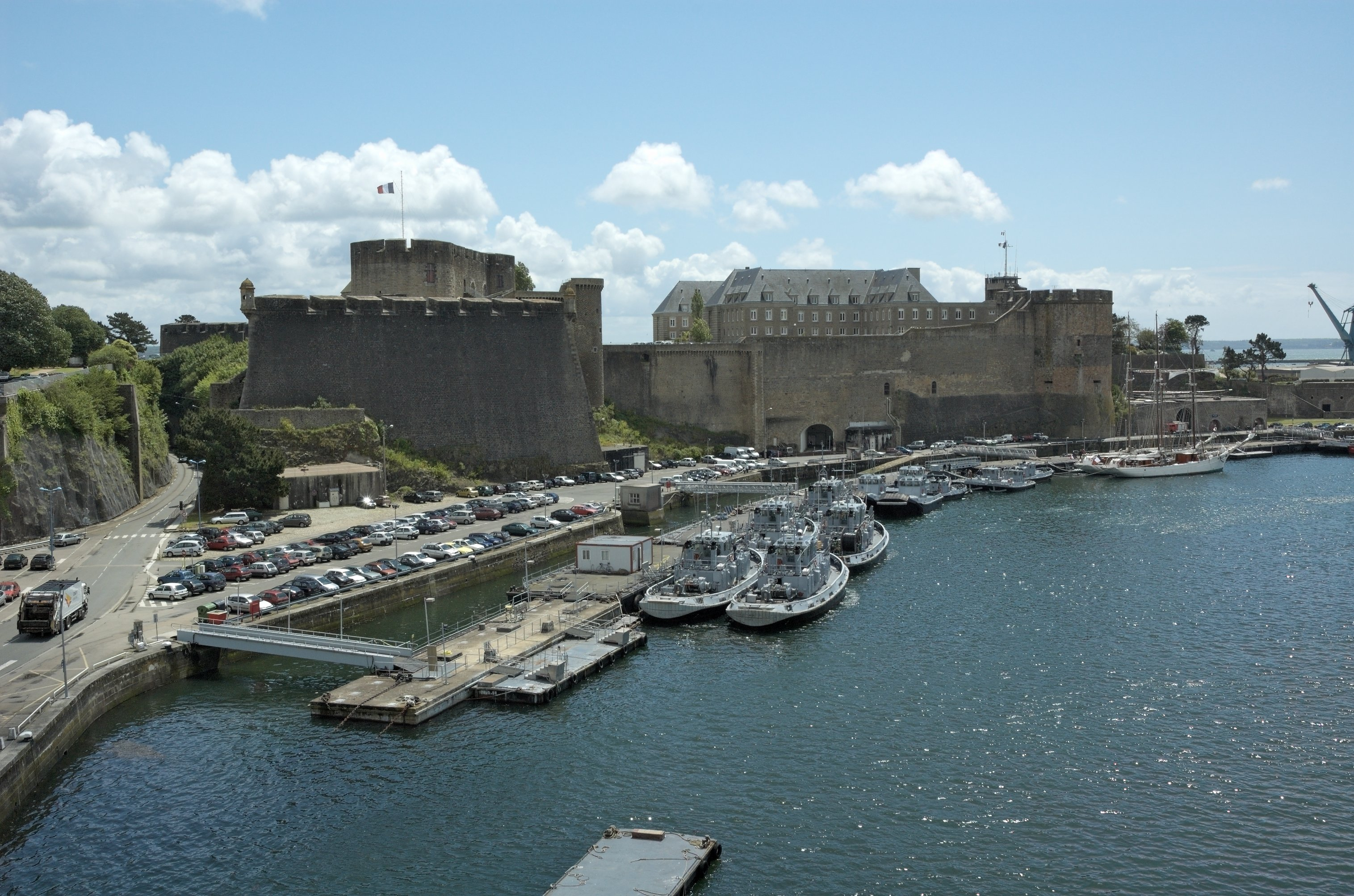 Château de Brest and the Penfeld river.